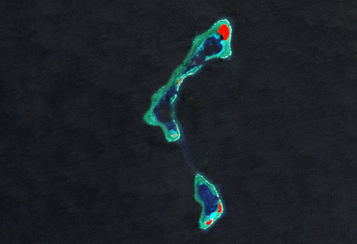 Landsat 7 false-colour image of Elato and Lamolior (bottom) Atoll, Yap State, Federated States of Micronesia